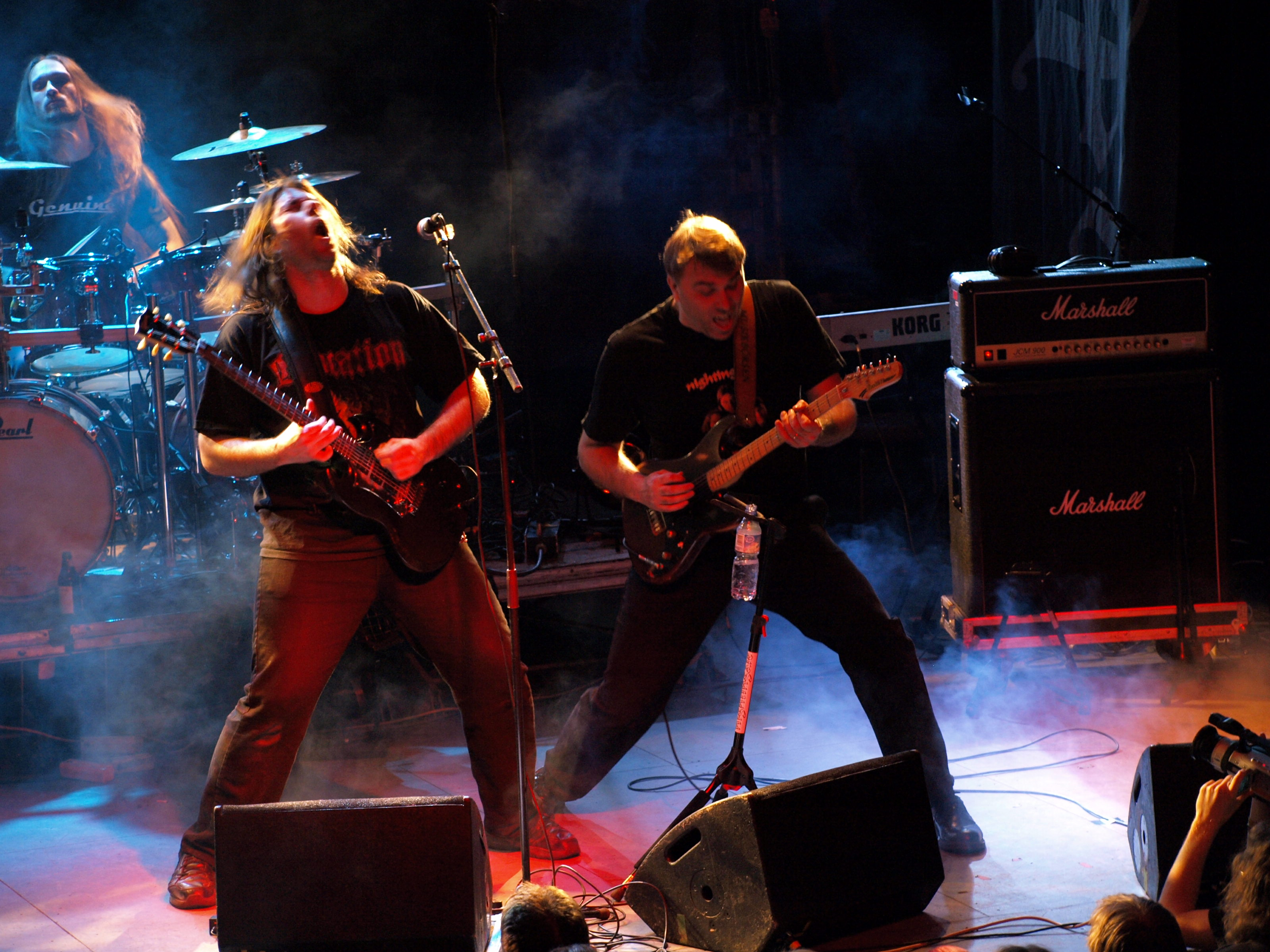 Swedish progressive metal band Nightingale live at Nosturi, Helsinki